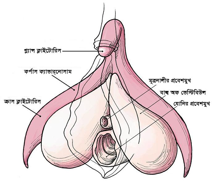 A picture showing the internal anatomy of the vulva, focusing on the anatomy and location of the clitoris. This version has Bangla labels.